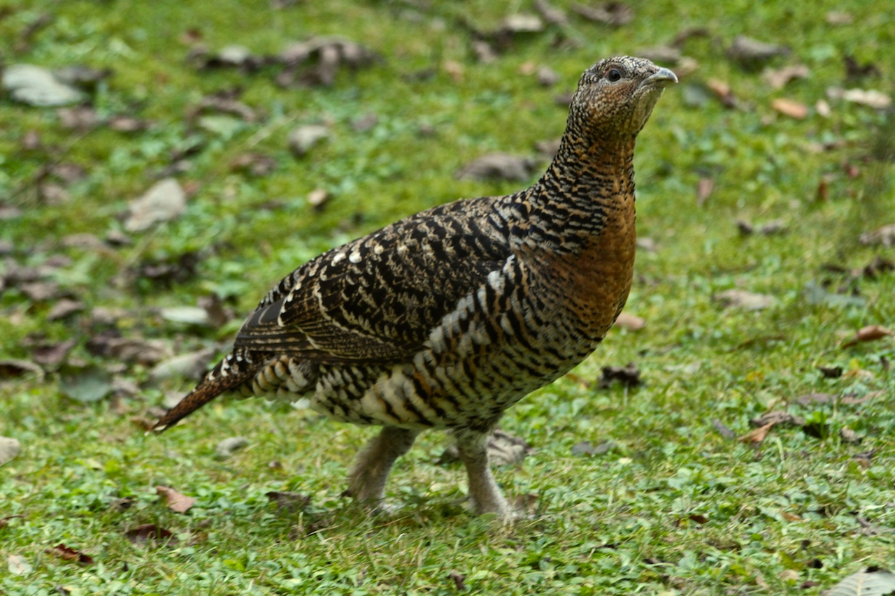 A female Western Capercaillie in Bayerischer Wald, Europe.